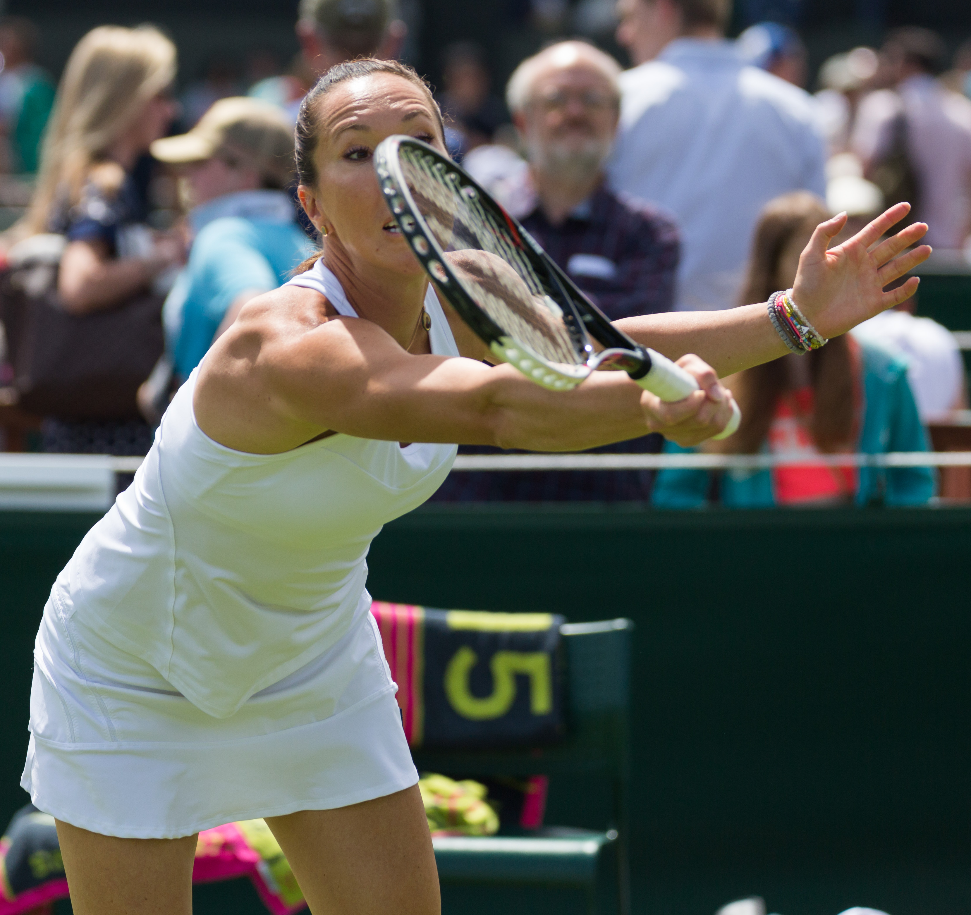 Jelena Janković competing in the first round of the 2015 Wimbledon Championships.